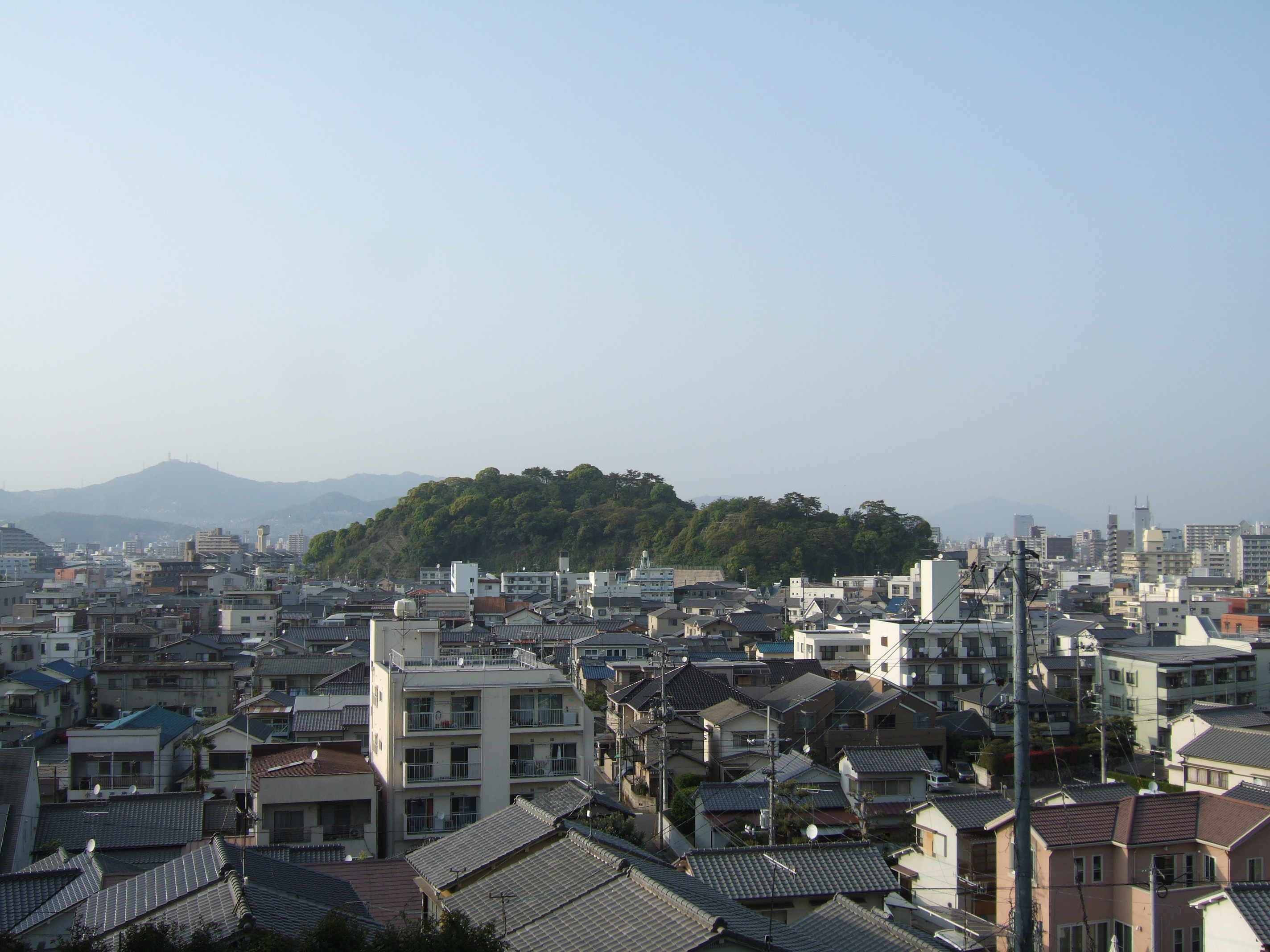 Eba Sarayama Park (Mount Eba Sara)